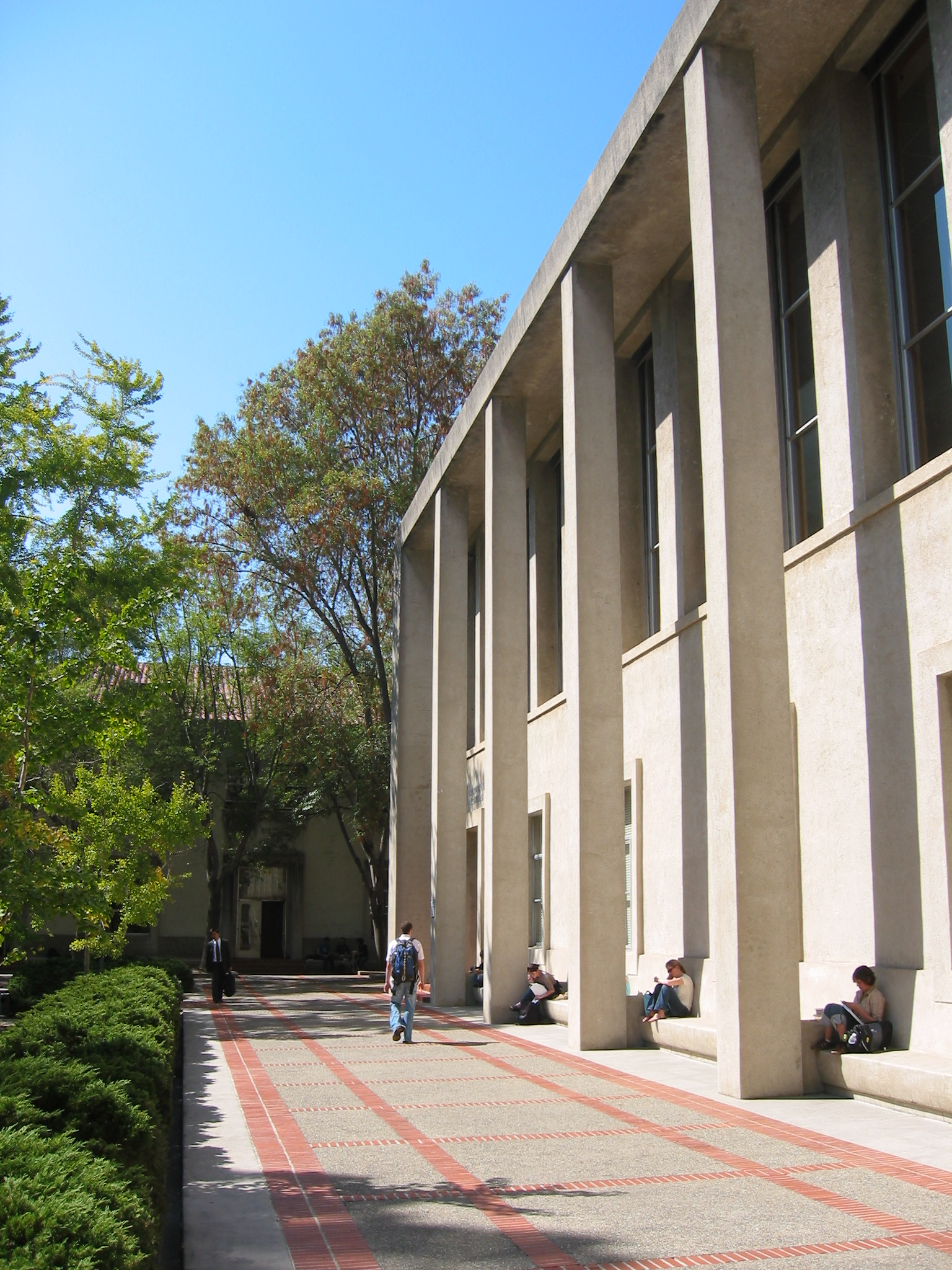 The South side of Boalt Hall. I took this picture myself.